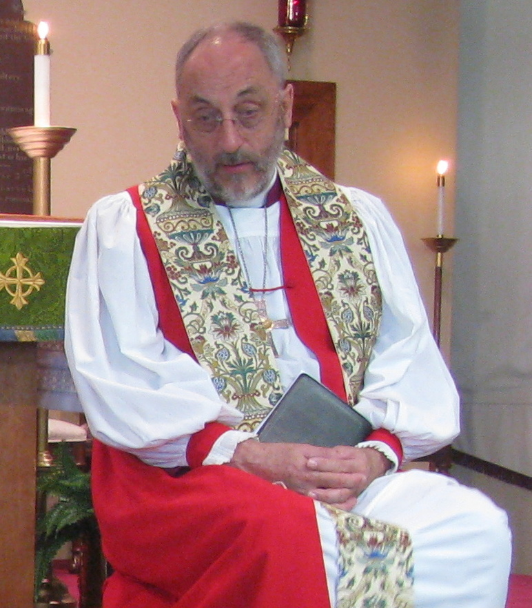 Bishop Martyn Minns gives a children's sermon at Christ the Redeemer Anglican Church in Garland, TX on Jan 30, 2011.